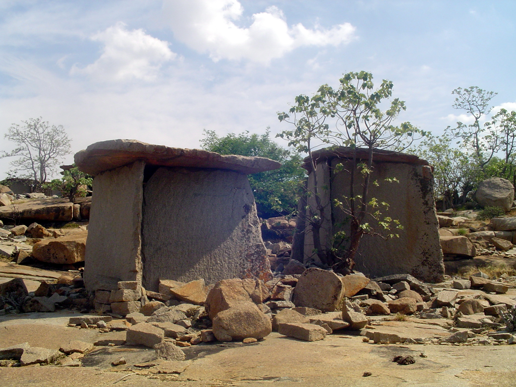 tombe at Pre-historic site, hire benakal